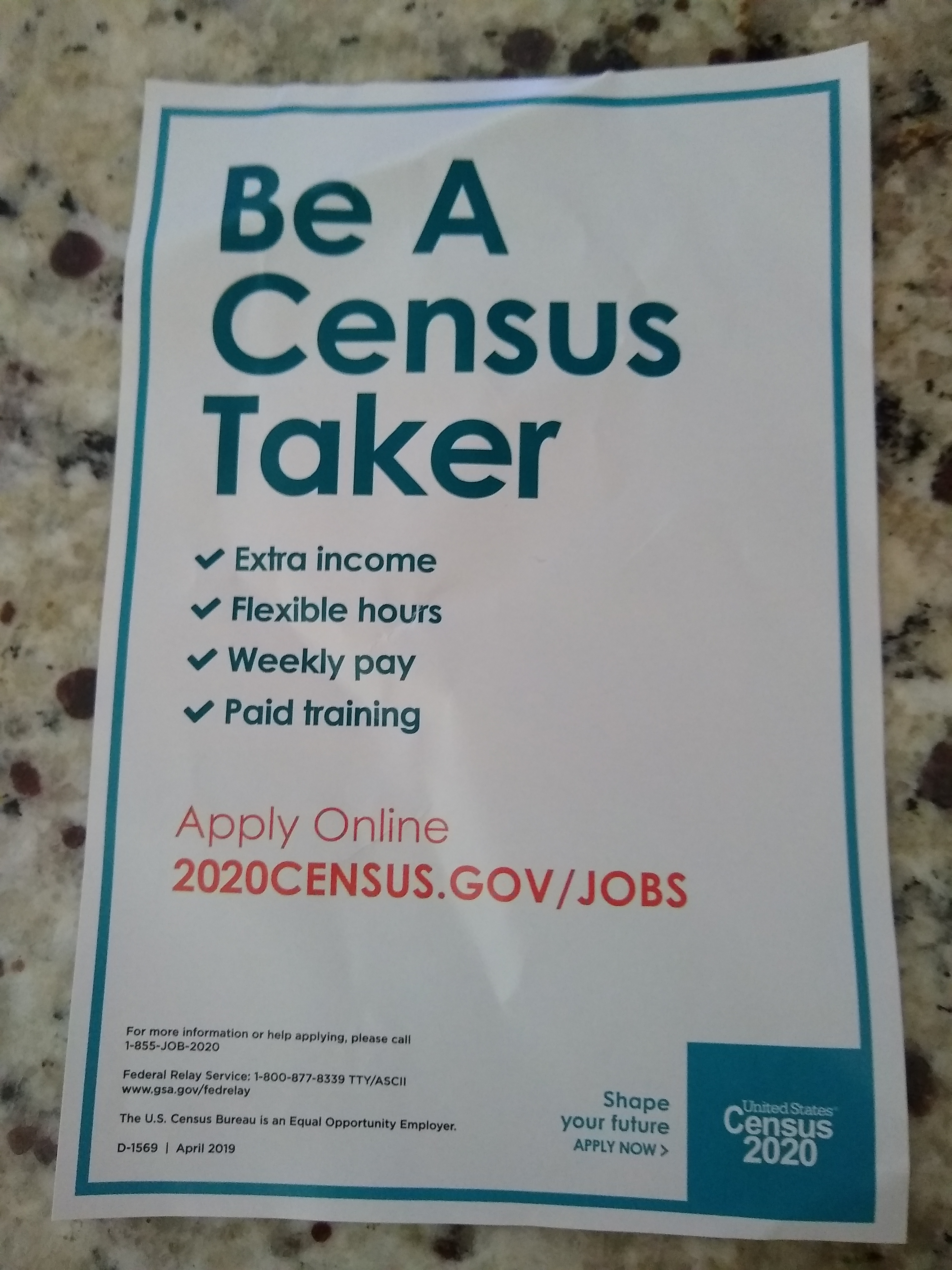 The 2020 United States Census hiring pamphlet.